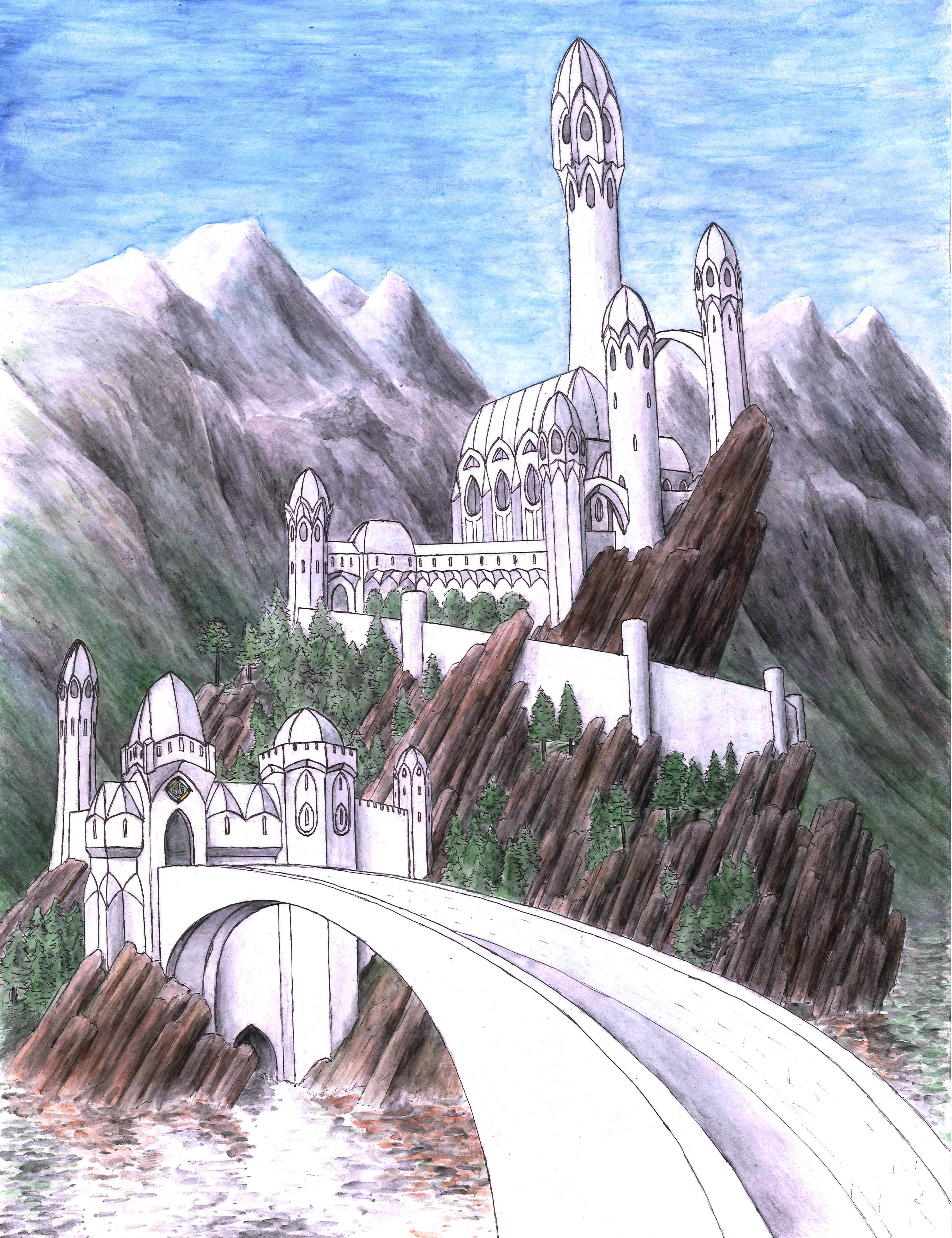 Tol Sirion